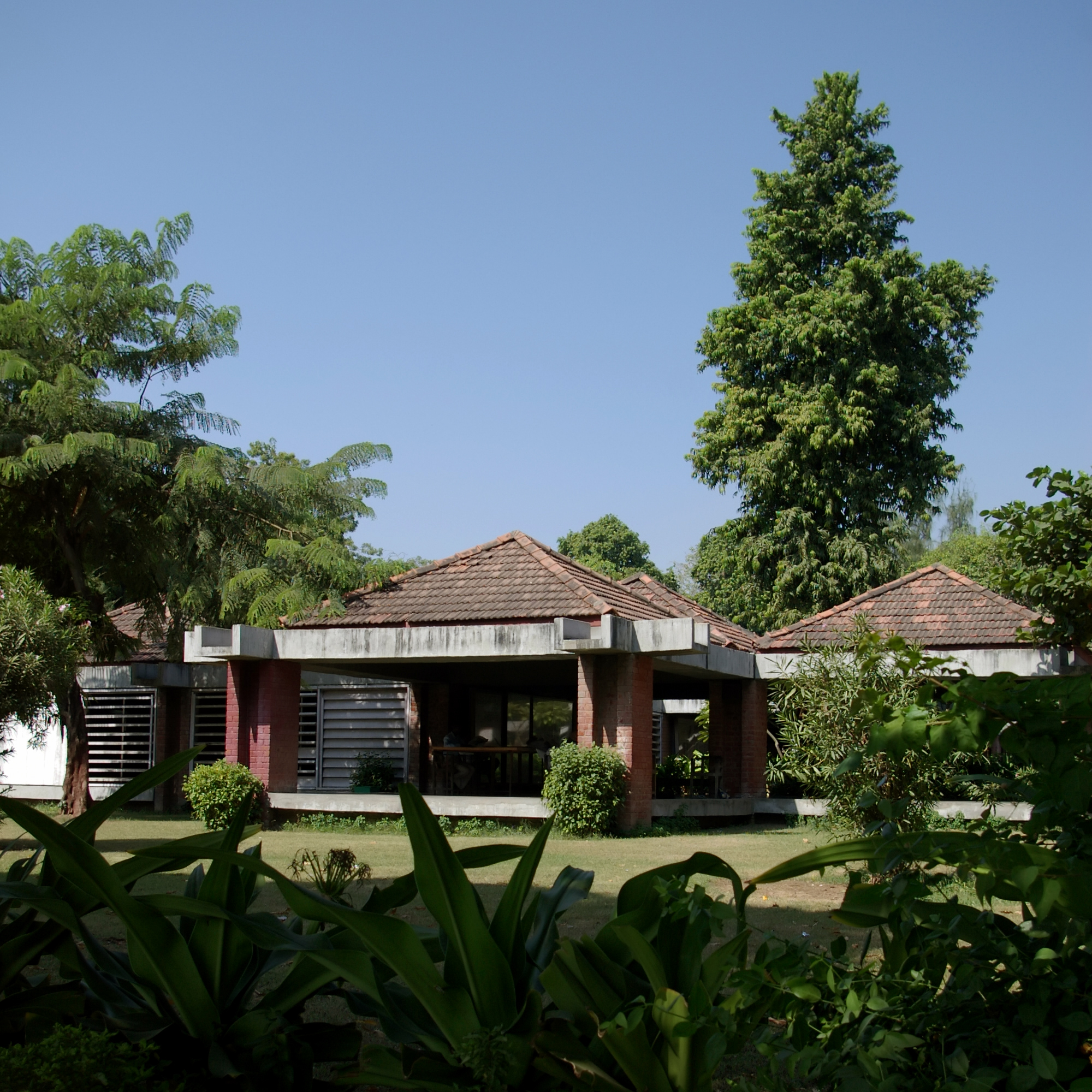 Sabarmati Ashram, one of the homes of Mohandas Karamchand Gandhi. Ahmedabad suburb of Sabarmati, India.